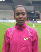 Profile photo of Betsy Saina in a sports stadium in August of 2014. Other information This photo has been cropped to show just her head and shoulders.